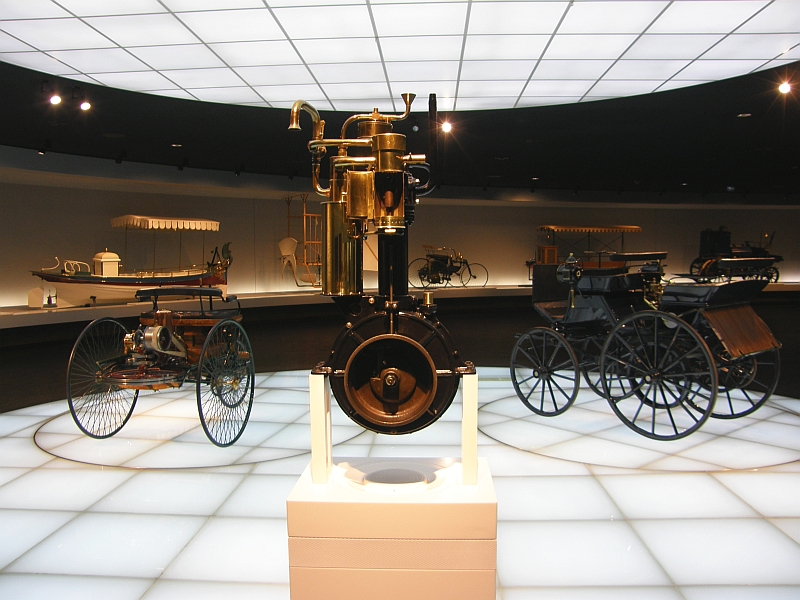 1886 Daimler-Maybach grandfather clock engine at Mercedes Museum. It did start with Herrn Daimler and Benz, after all! These of course are replicas, but still... and all that engine for about 2hp :-)